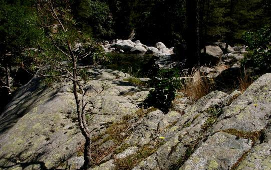 Hardiness: Corsican Pine (Pinus nigra var. corsicana) at a rock crevice in Corsica